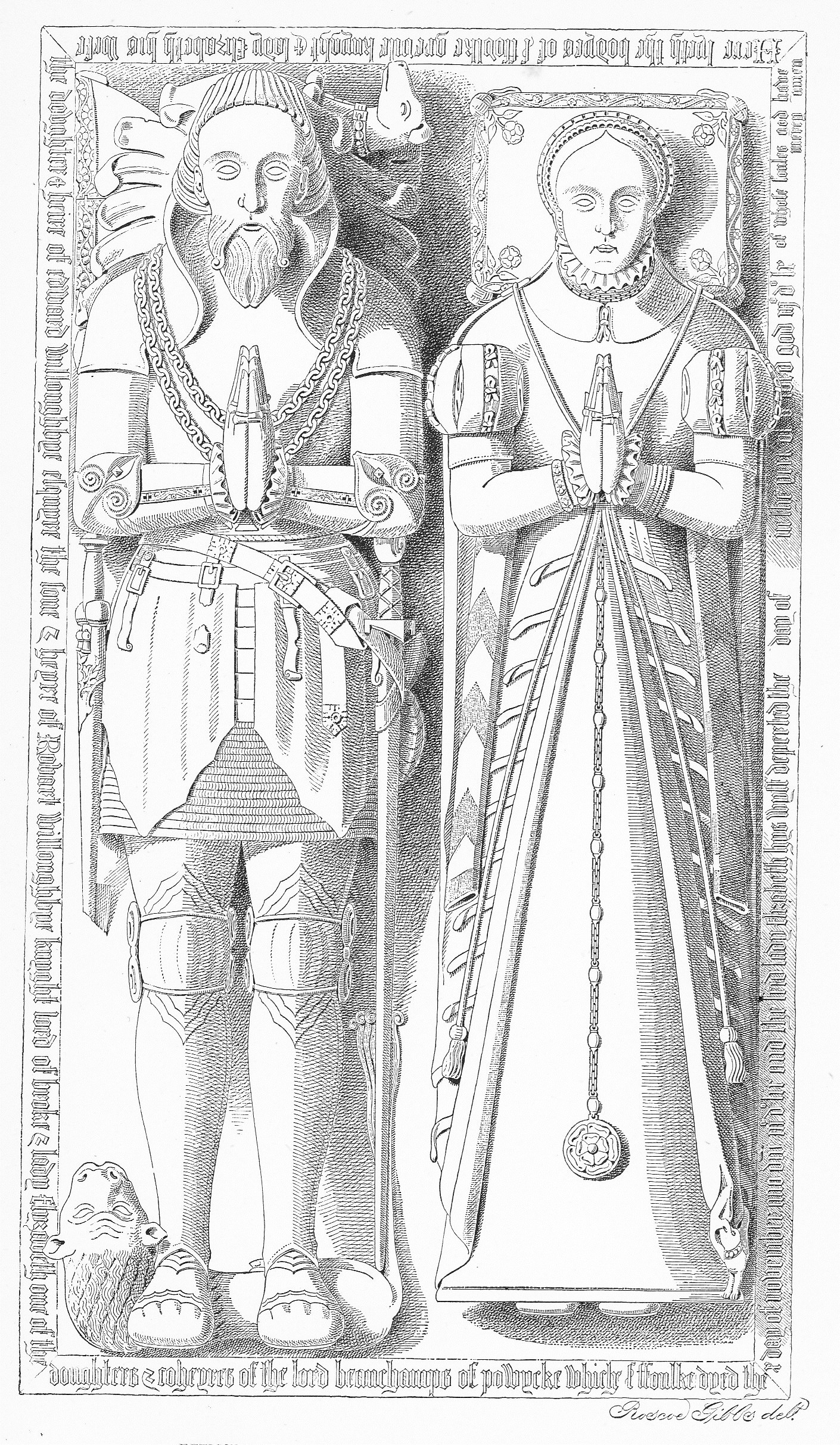 Effigies of Sir Fulke Greville(d.1559) and his wife Elizabeth Willoughby(d.1560), Alcester Church, Warwickshire. Inscription in ledger-line: "Here lyeth the bodyes of s. ffoulke grevile knyght & lady Elizabeth his wefe the doughter & heire of edward willoughbye esquyre the sone & heyre of Robert willoughbye knyght lord of broke & lady Elizabeth one of the doughters & coheyres of the lord beauchamps of powycke whiche s ffoulke dyed the x day of november a'no d'ni M.o d.o lix and the seid lady Elizabeth hys wyff deperted the ...day of...in the yere of o.r lord god M.o d.o lx of whose soules god have mercy amen"